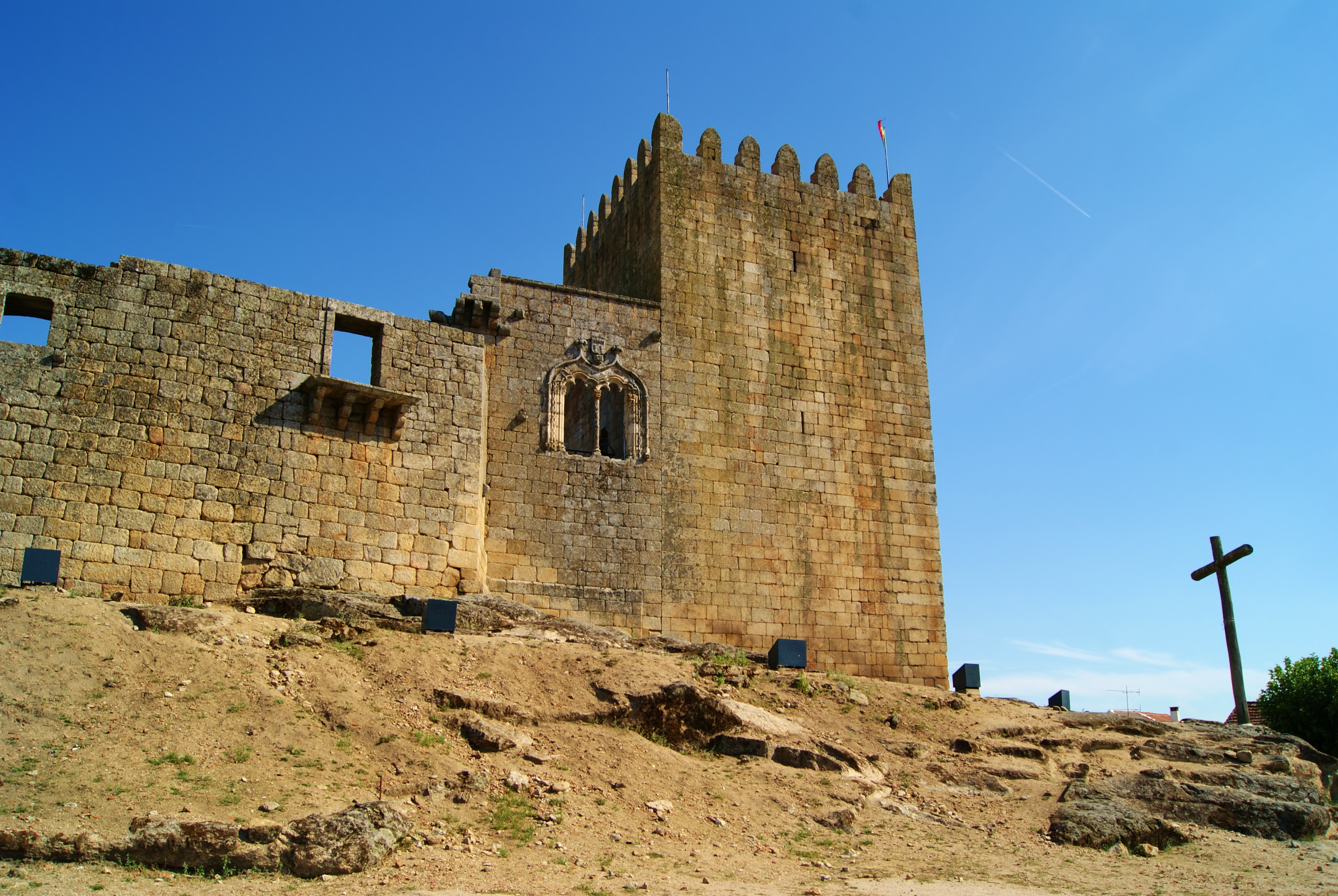 This monument is classified as Monumento Nacional. This file was uploaded for Wiki Loves Monuments in Portugal with the unique identifier 70155.